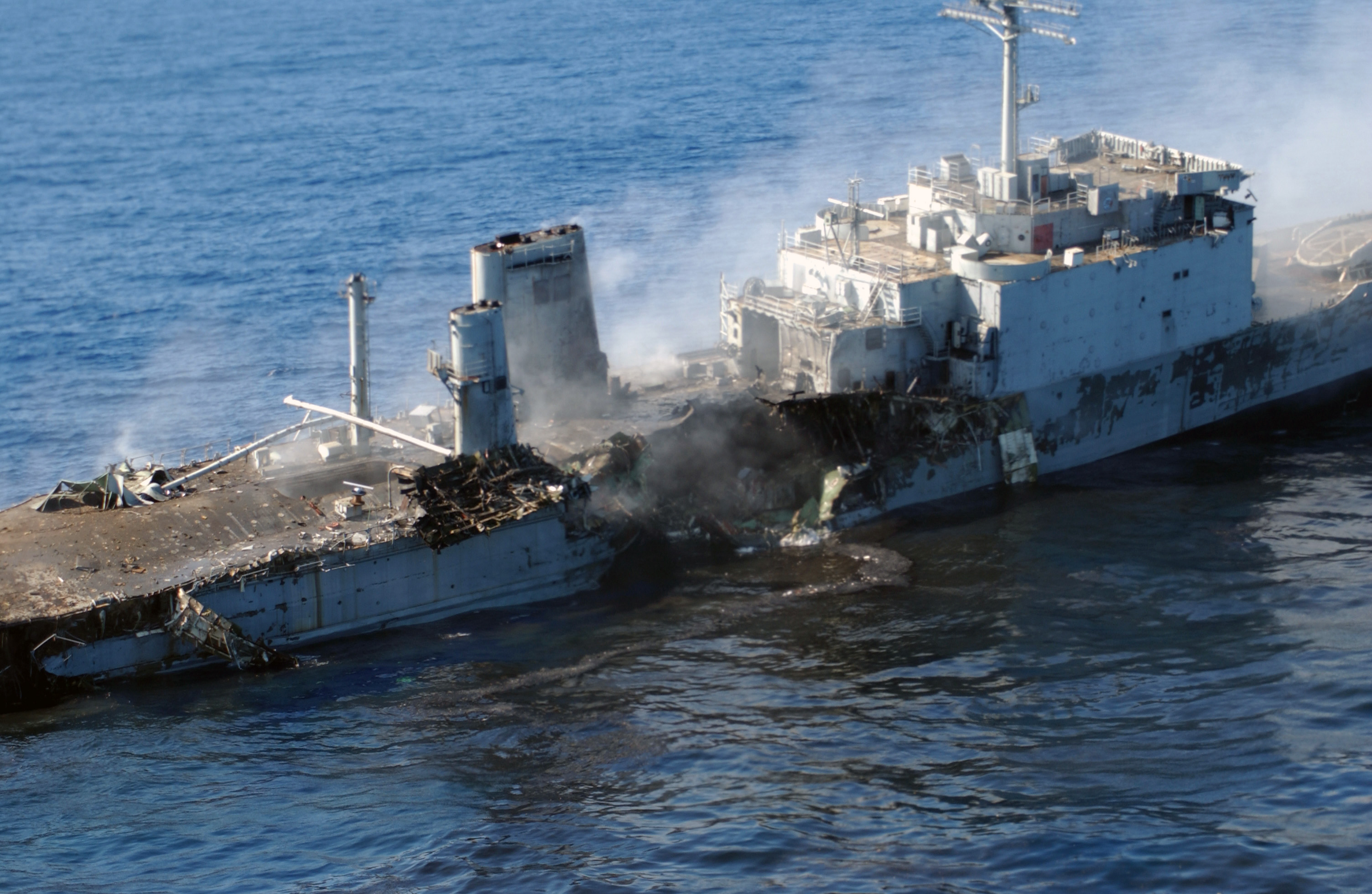 The USS SCHENECTADY, a 522-foot tank landing ship that was decommissioned in 1993, lists after being struck by seven 2,000lb Joint Defense Attack Munitions (JDAM) missiles during exercise Resultant Fury at the Pacific Missile Range Facility off the Island of Kauai, Hawaii, on Nov. 23, 2004. (USAF Photo by Tech. Sgt. Richard Freeland) (Released) Location: KAUAI, HAWAII (HI) UNITED STATES OF AMERICA (USA)